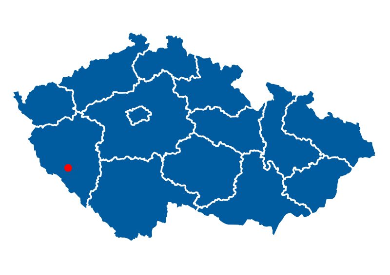 changed to Poleň